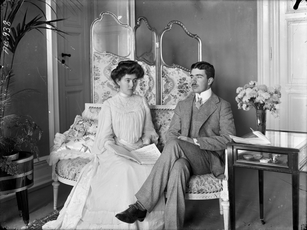 Crown Prince Gustav Adolf and Crown Princess Margaret at Sofiero.